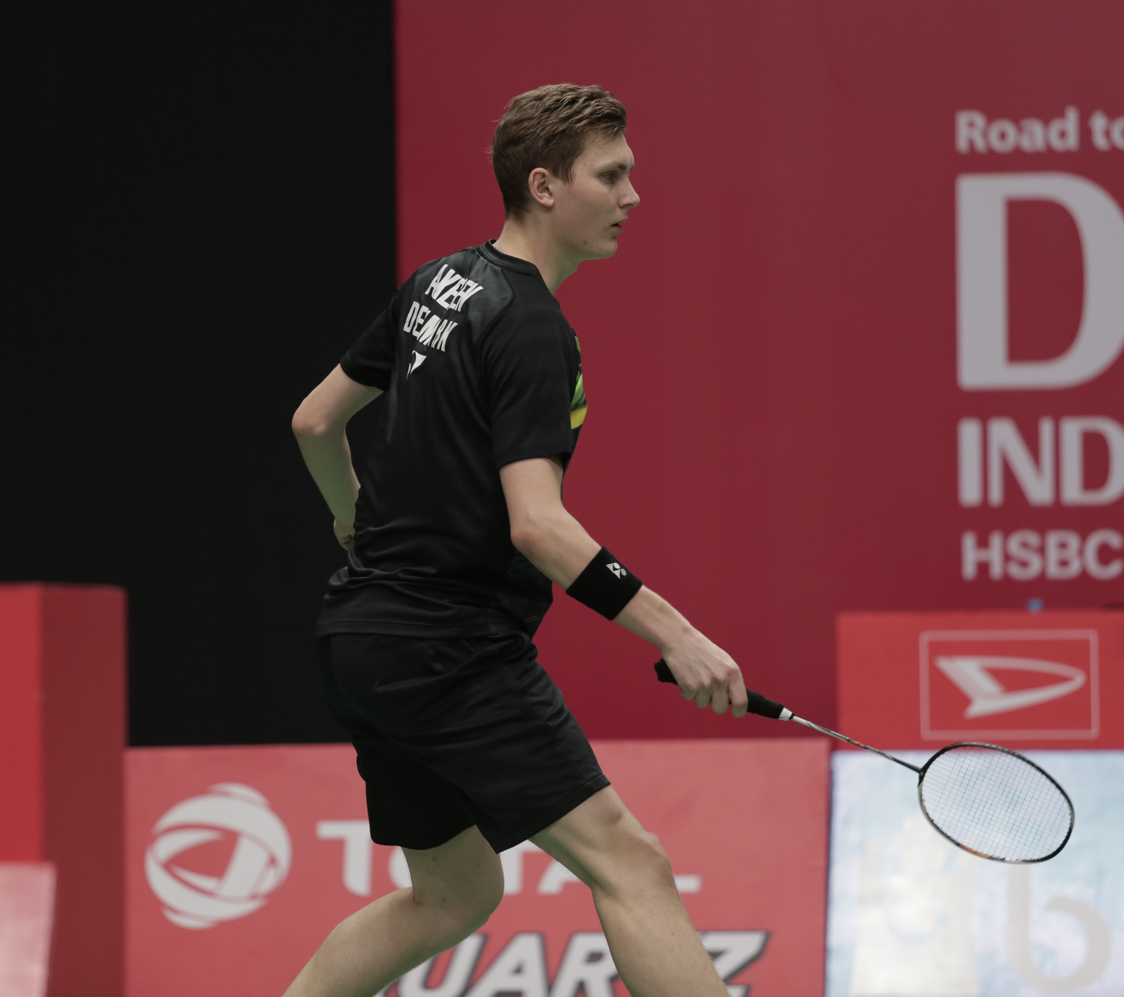 Viktor Axelsen in action during Indonesia Masters 2018 badminton tournament